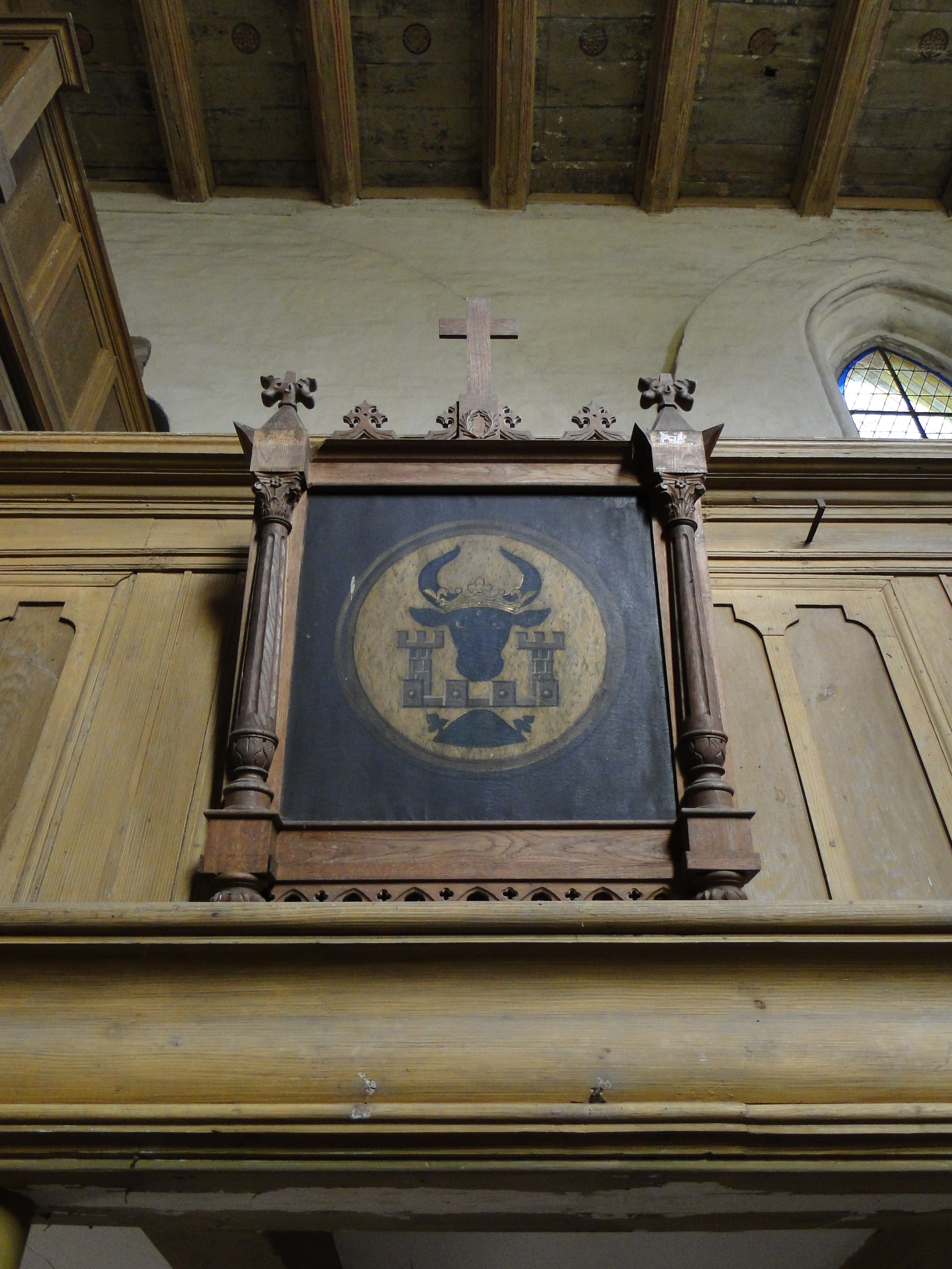 Church in Goldberg, district Ludwigslust-Parchim, Mecklenburg-Vorpommern, Germany